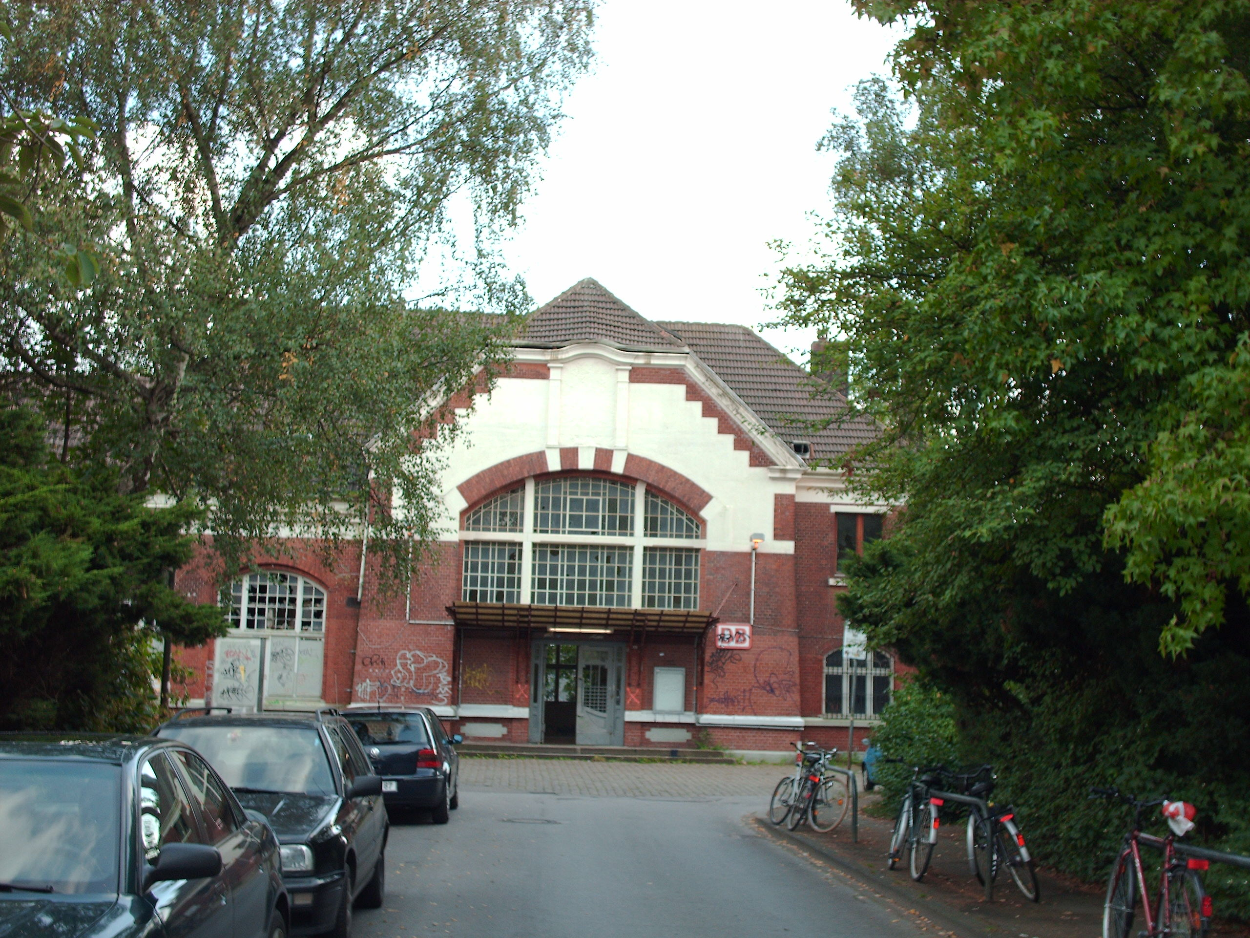 Dortmund-Kurl Station, Dortmund, Germany check usage